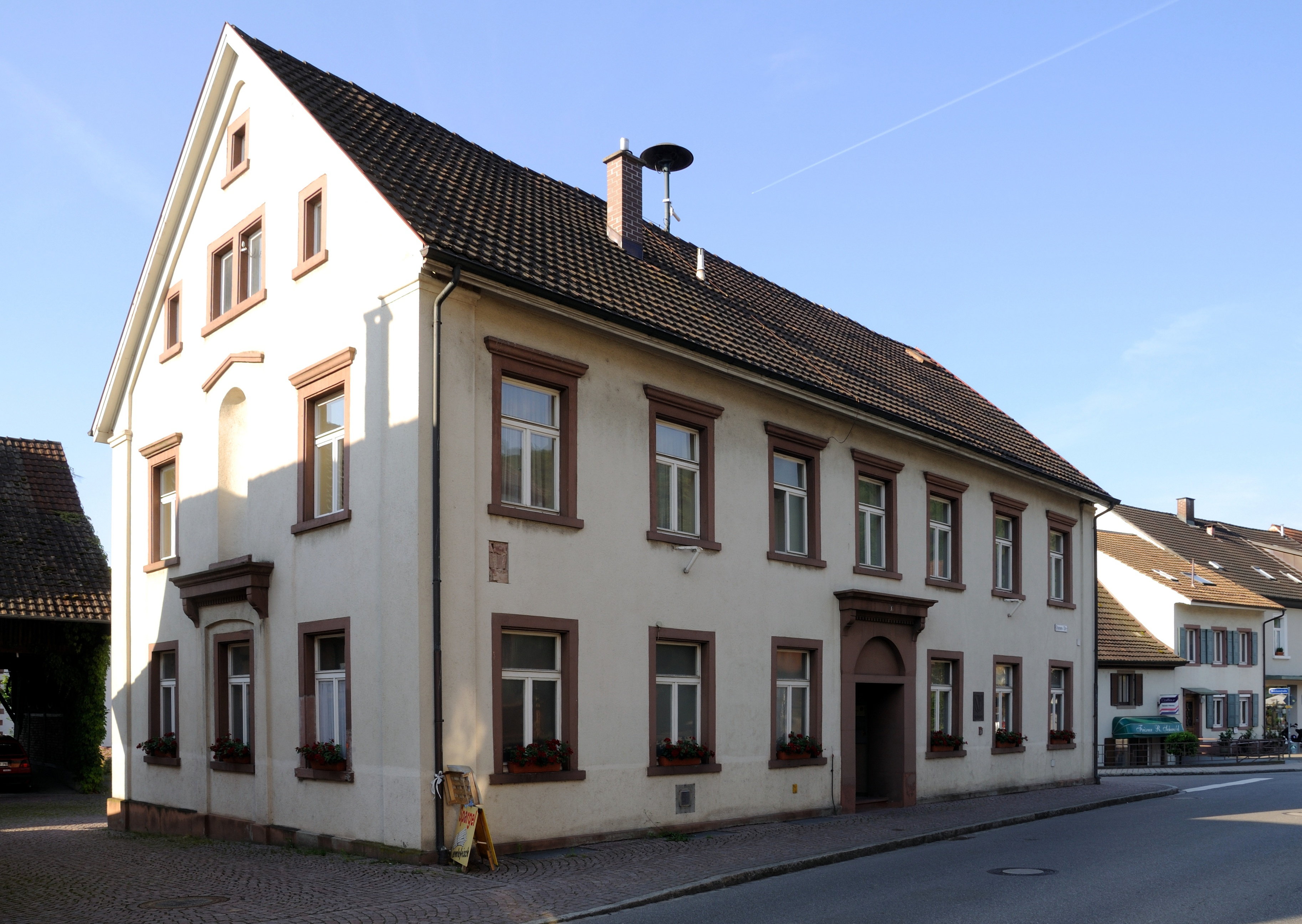 Hauingen: town hall